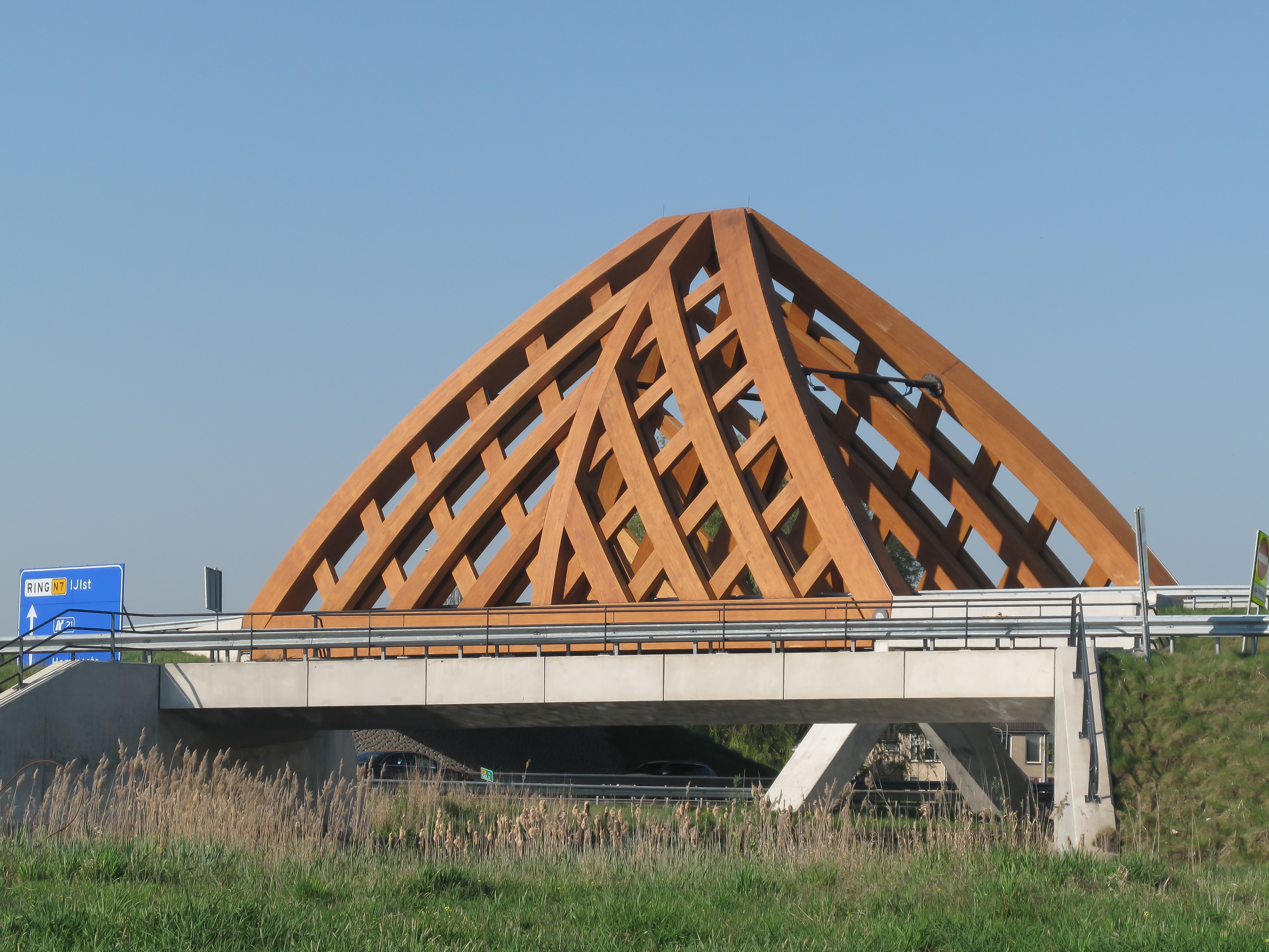 between Sneek and IJlst, wooden fly-over